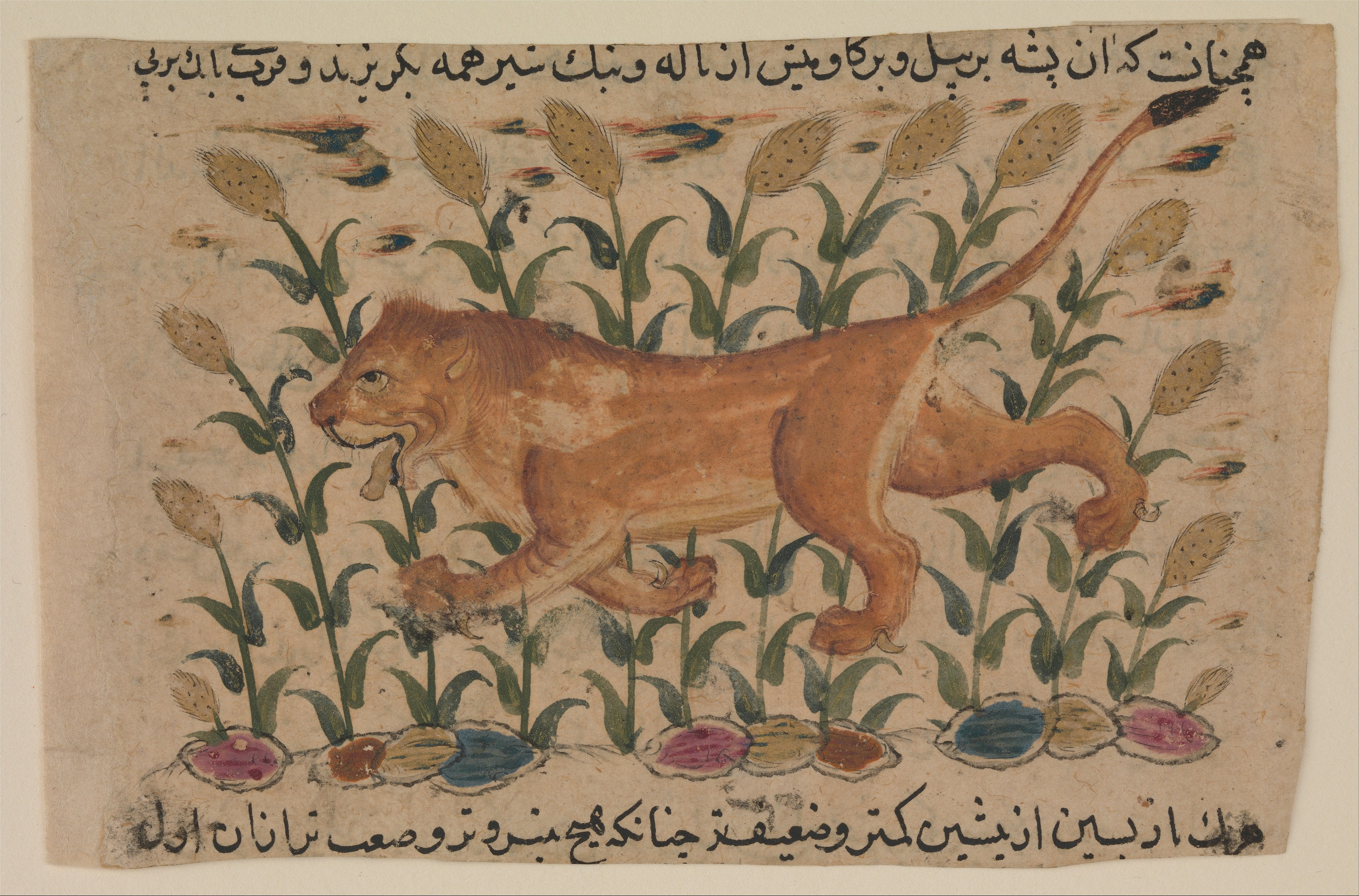 Folio from an illustrated manuscript; Codices